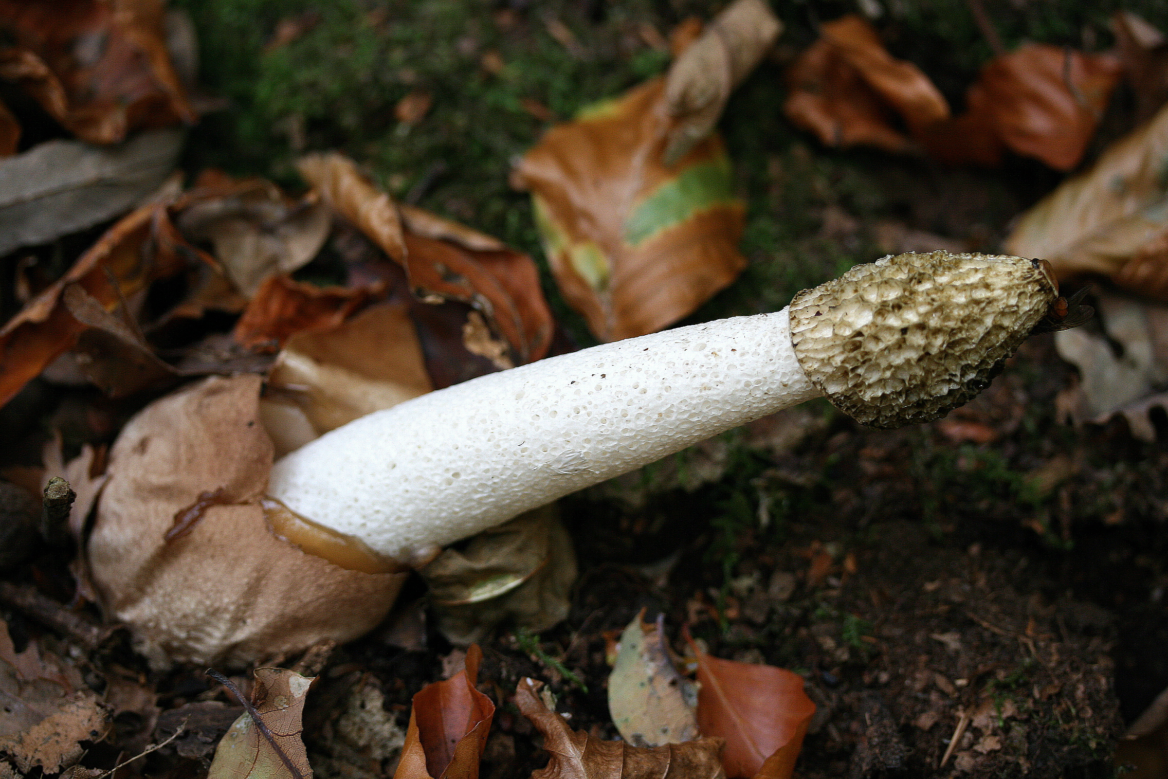 Common stinkhorn, Havré, Belgium